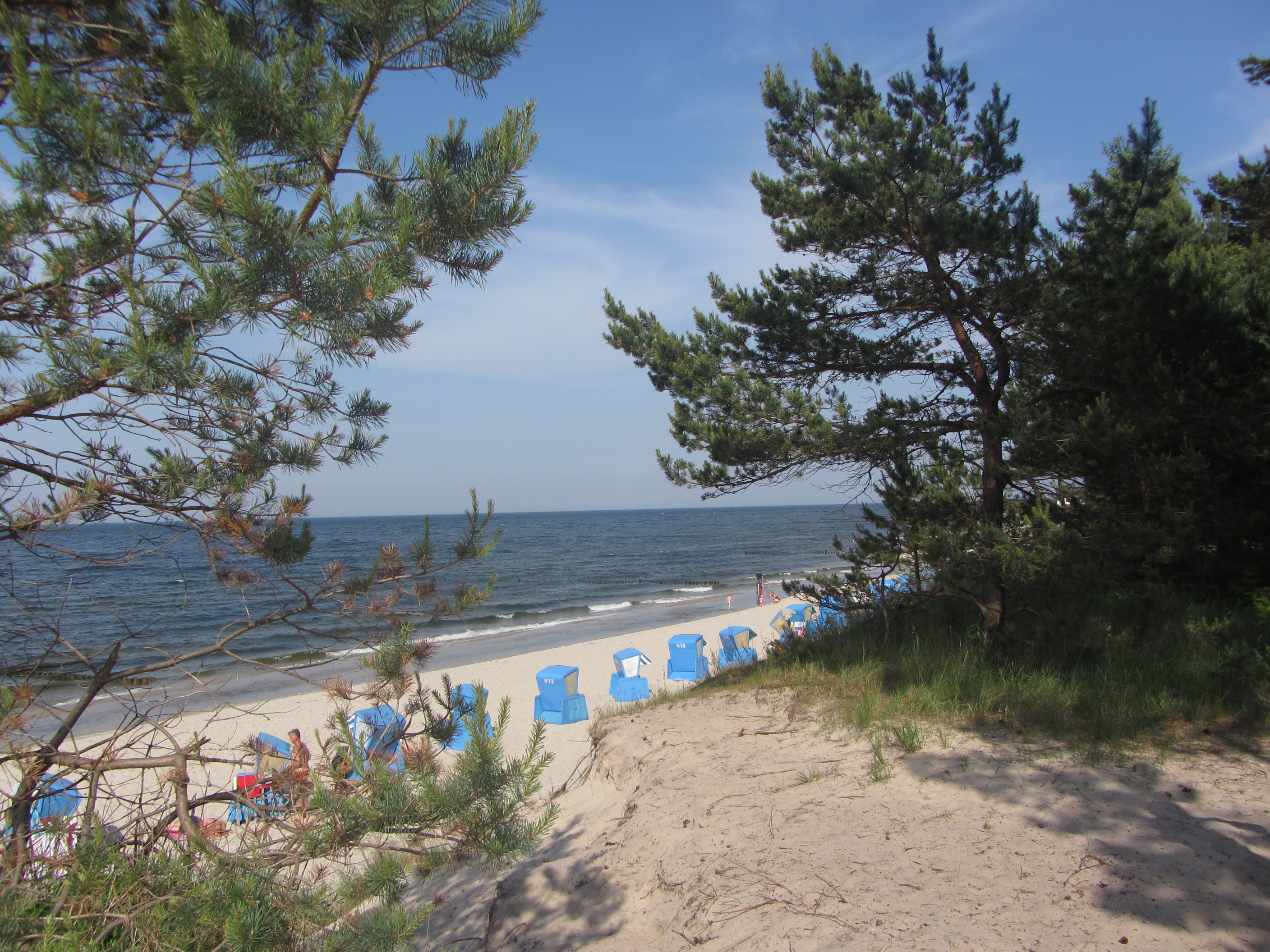 Beach near Zempin, district Vorpommern-Greifswald, Mecklenburg-Vorpommern, Germany